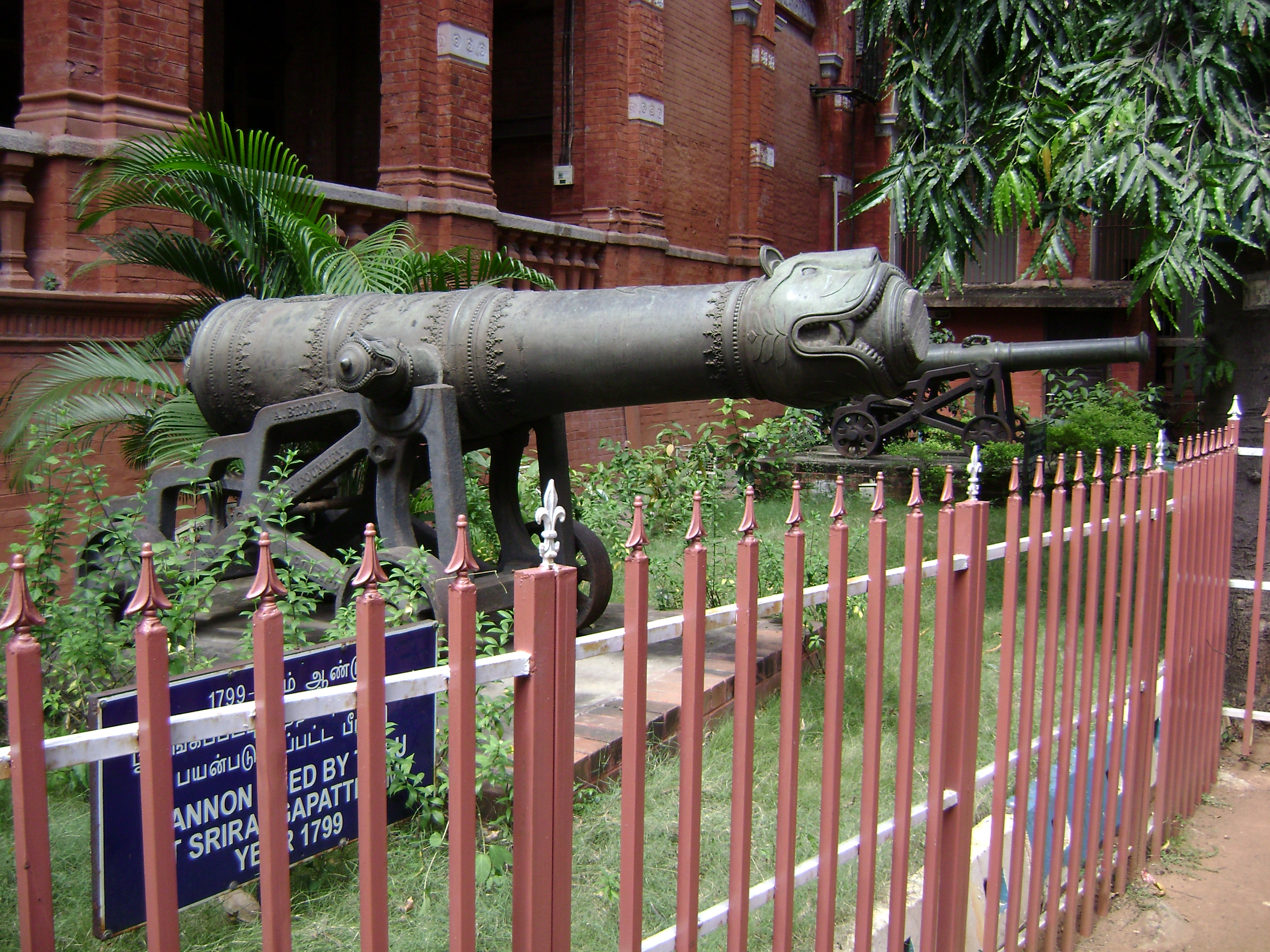 Canons at the Government Museum, Egmore, Chennai